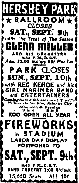 An ad for Hershey Park for end of season closing dates